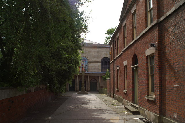 St John's RC Church, Wigan-02 An attractive entrance to the church.